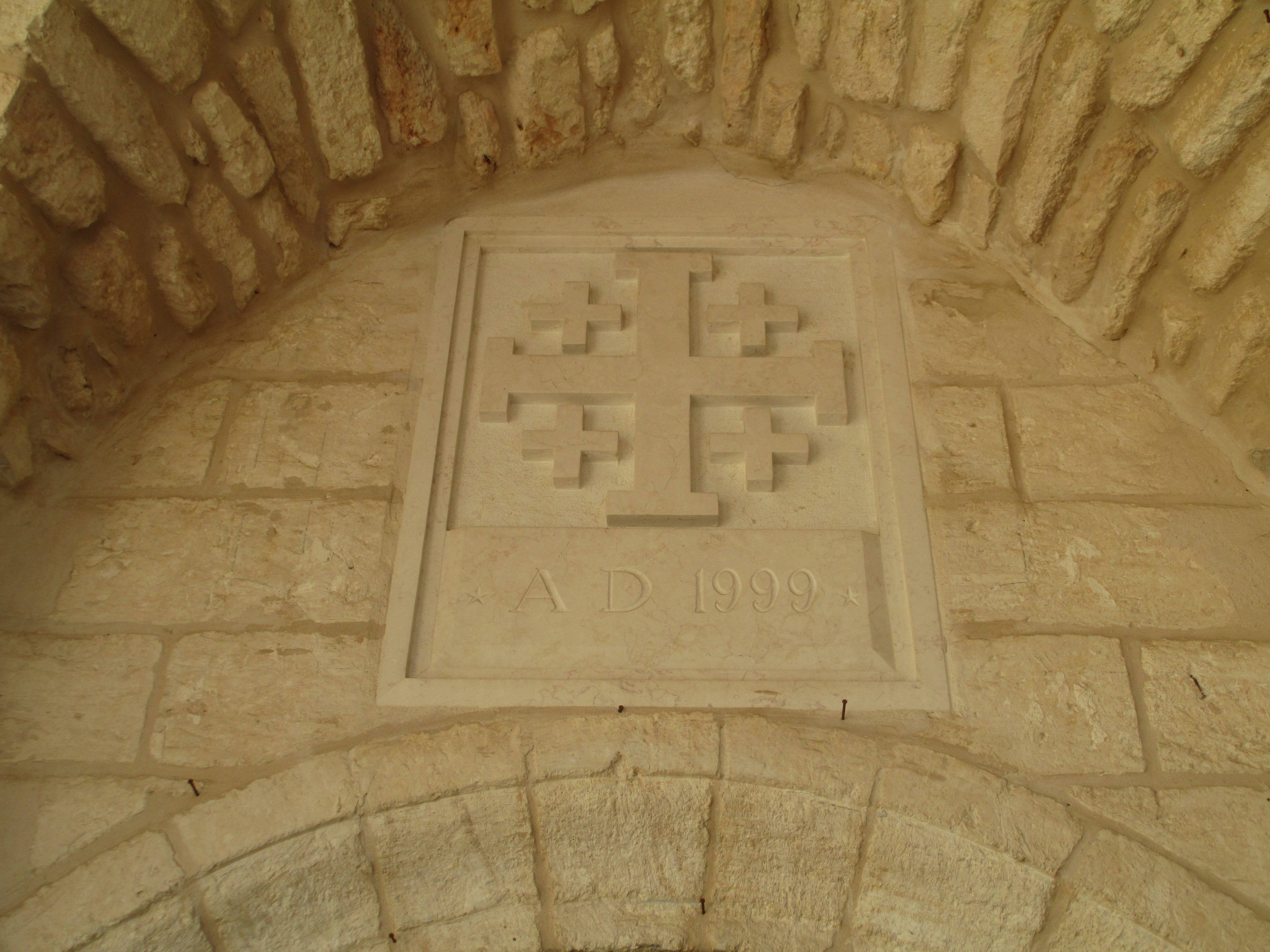 The cana cahtholic wedding church